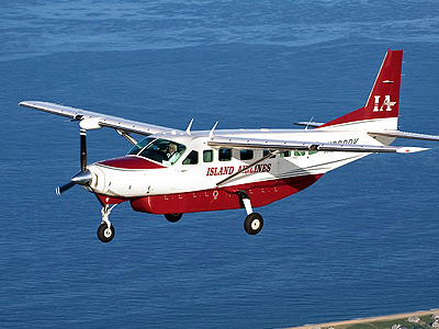 Island Airlines Cessna 208 Caravan, tail number N208BK in flight over Nantucket